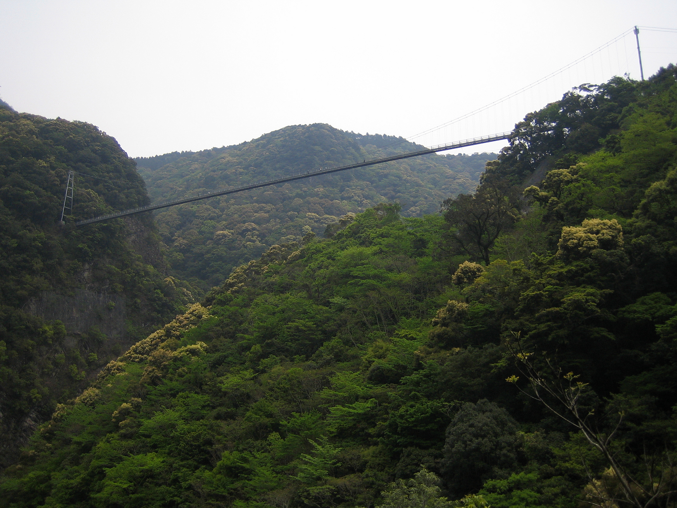 The Aya Teruha Suspension Bridge over the Zambezi River between